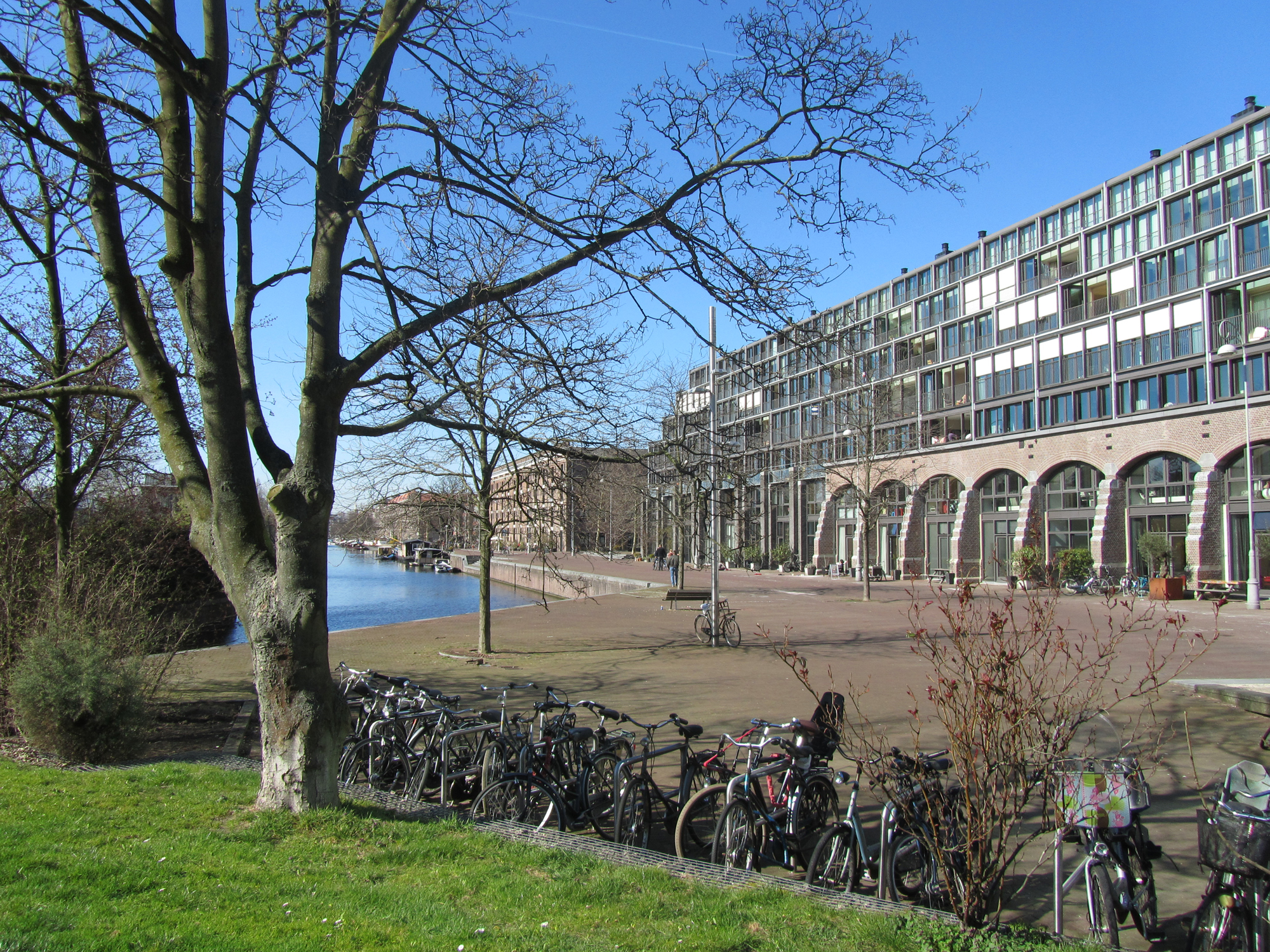 Entrepotdok in Amsterdam, looking north from Sarphatistraat